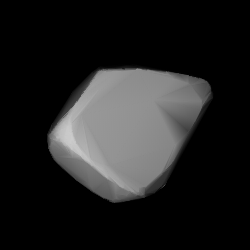 3D convex shape model of 1380 Volodia, computed using light curve inversion techniques. J. Hanuš, J. Ďurech, M. Brož, B. D. Warner (June 2011). "A study of asteroid pole-latitude distribution based on an extended set of shape models derived by the lightcurve inversion method". Astronomy and Astrophysics 530: A134. ISSN 0004-6361. arXiv